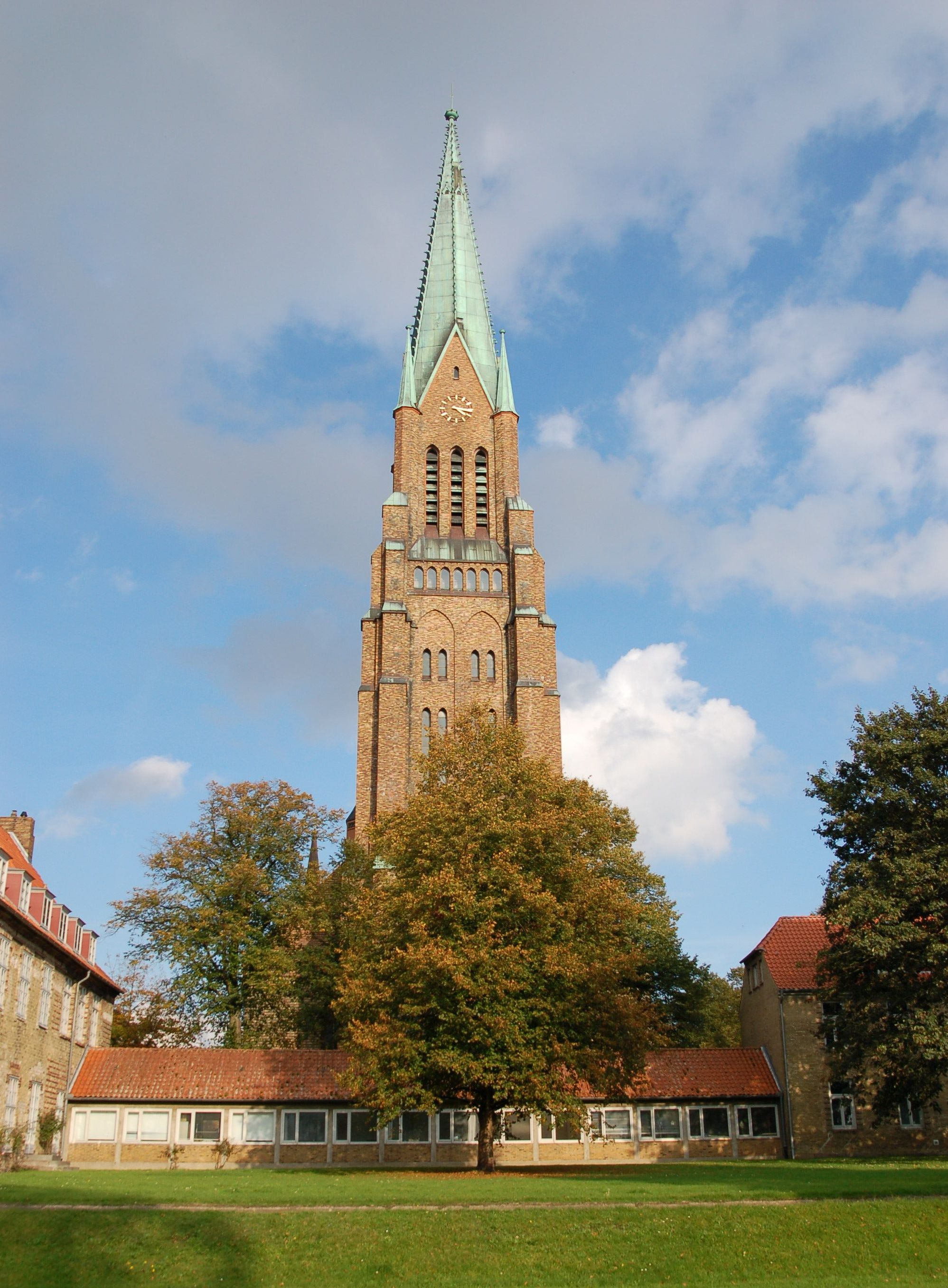 Schleswig Cathedral, Germany